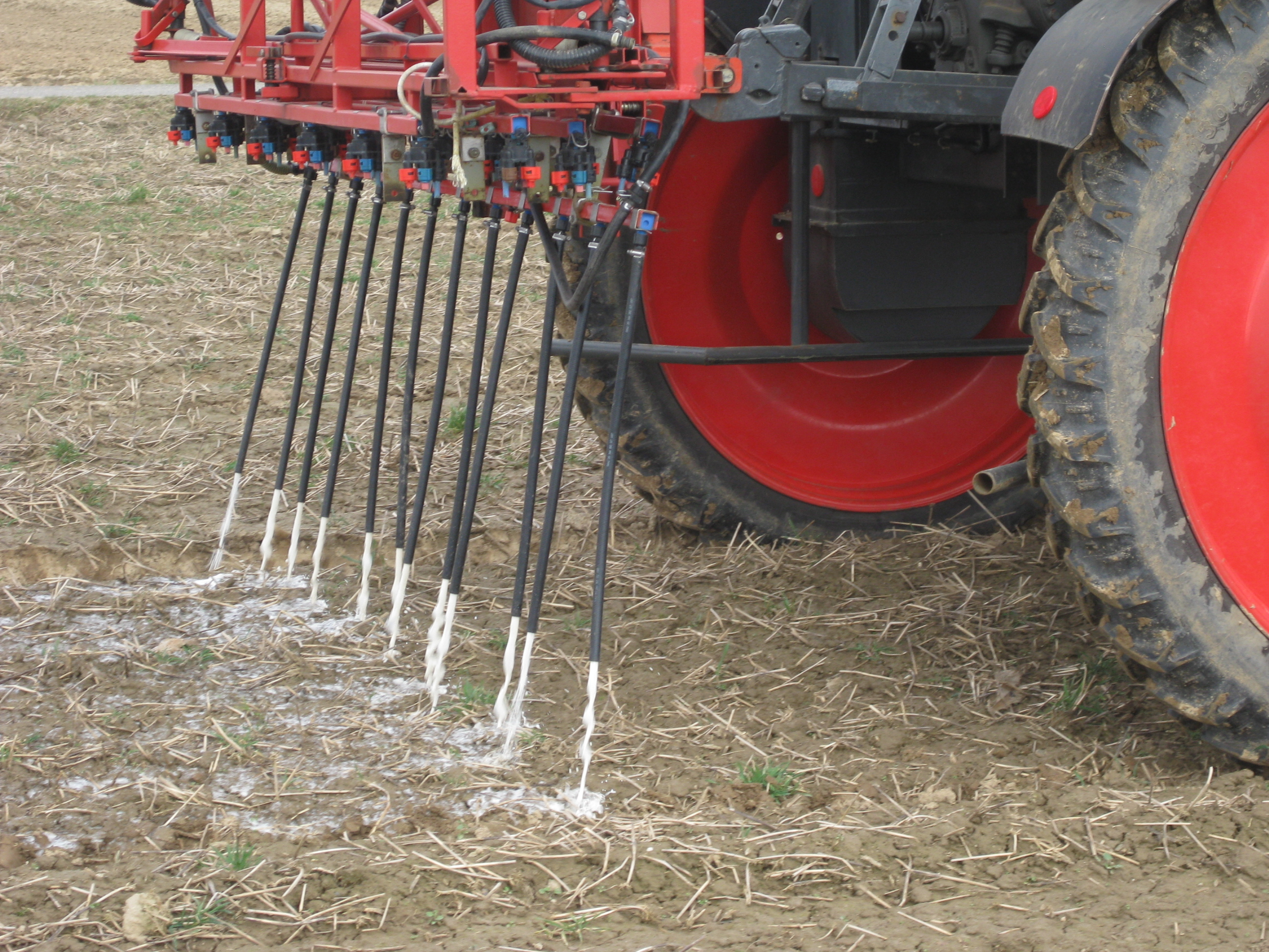 Here is shown the application of urine collected from the office building within the research project SANIRESCH. The urine is applied by means of flexible hose close to the soil. Photo is taken by: Ute Arnold, University of Bonn (March 2010)